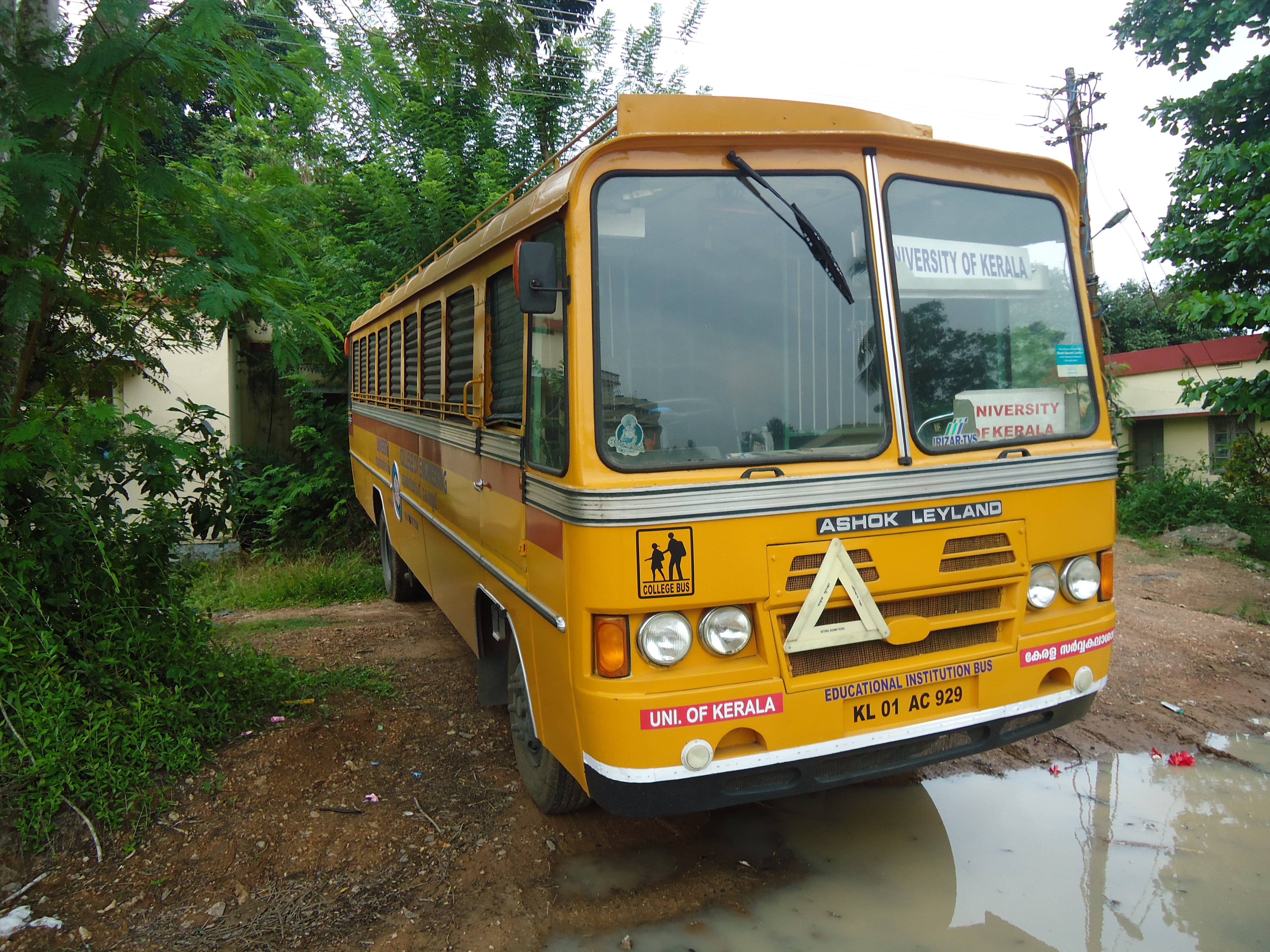 Kerala University Campus Karyavattom, Thiruvananthapuram, Kerala, India